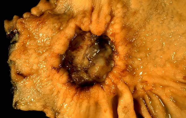 This cancer presented in a 40-year-old woman complaining of abdominal pain. Endoscopically it was a "very suspicious" ulcer. Biopsy showed diffusely infiltrating signet ring cell adenocarcinoma. These are gross photos of the subtotal gastrectomy specimen. The photo above is asen face view of the ulcer. The pyloric margin is to the left. The ulcer is on the lesser curvature. Photograph by Ed Uthman, MD. Public domain. Posted 3 Jan 99